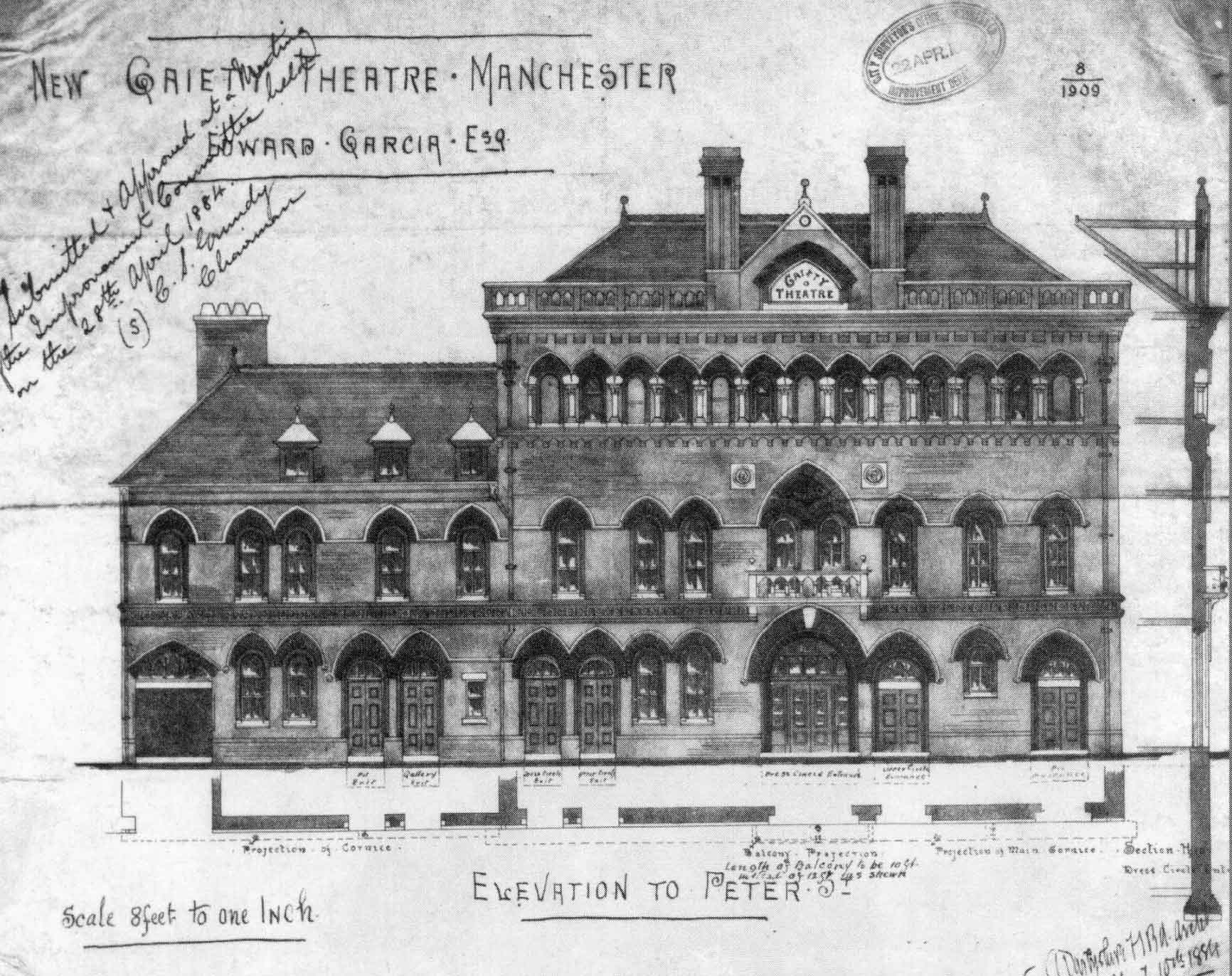 Architect's drawing of the planned theatre